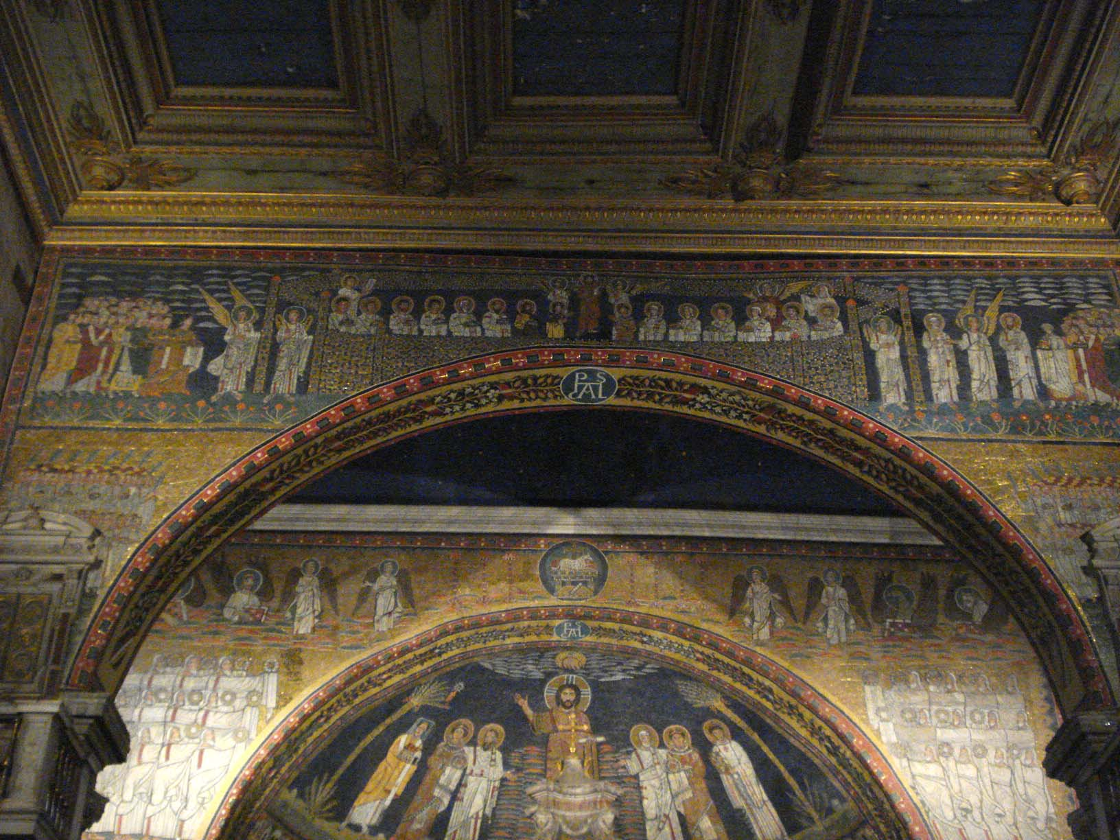 Santa Prassede - apse and triumph archs